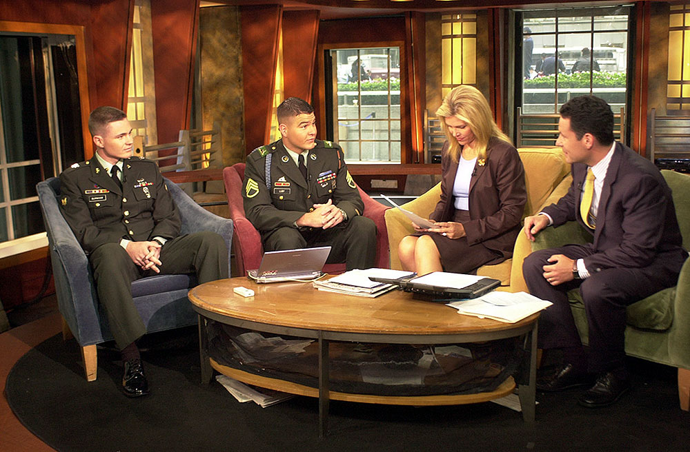 Caption: Department of the Army Soldier and NCO of the Year for 2003 Spc. Russell Burnham and SSG James Luby chat with Fox and Friends hosts E.D. Hill and Brian Kilmeade Monday morning in New York City, NY. Burnham and Luby earned the titles Friday night after a weeklong competition at Fort Lee, Va, and Washington, DC. U.S. Army photo by Master Sgt. Richard Puckett.